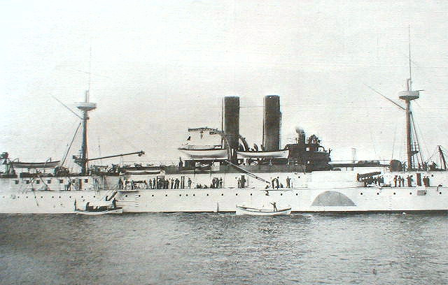 USS_Maine_(ACR-1) - a battleship of the U.S. Navy Removed caption read: SECOND-CLASS BATTLESHIP "MAINE". [cut off.. "Displa"]cement 6,682 tons. Speed, 17:45 knots. Maximum Coal Supply, 856 tons. Complement, 374 men. Armor: Belt, 12in.; deck, 2in.; ba [cut off] [cut off.. "Guns:"] Main battery, four 10-in., six 6-in.; secondary rapid-fire battery, seven 6-pounders, eight 1-pounders, four Gatlings. Torpedo [..cut off] [cut off.. "Havana"] Harbor, February 15, 1808.